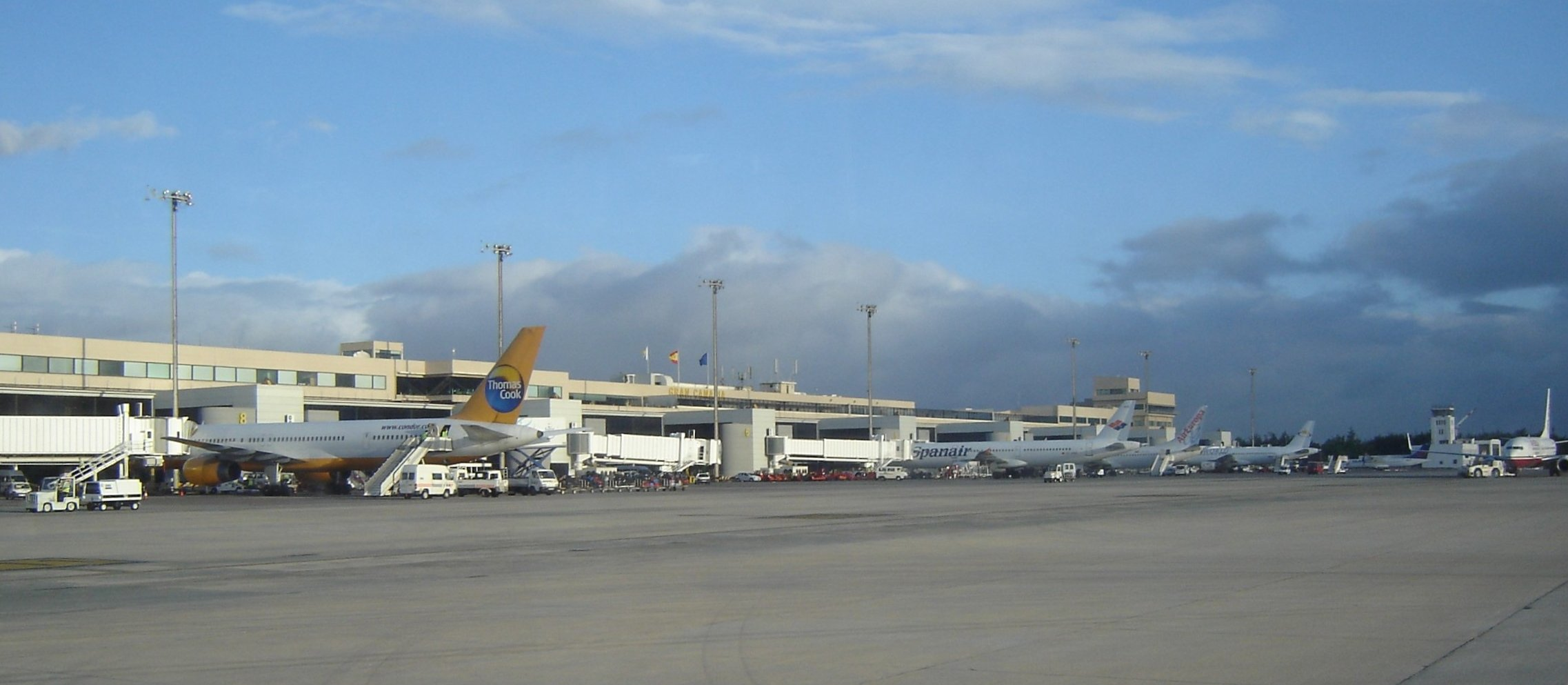 Gran Canaria international airport